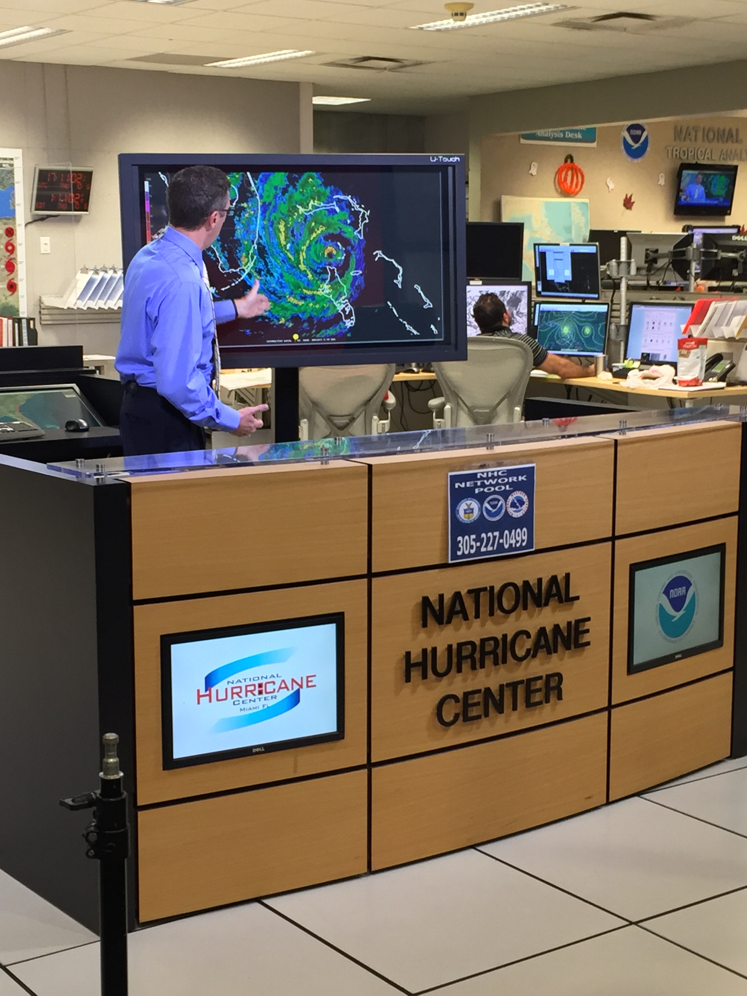 NHC Director Richard Knabb discussing Hurricane Matthew on October 6, 2016